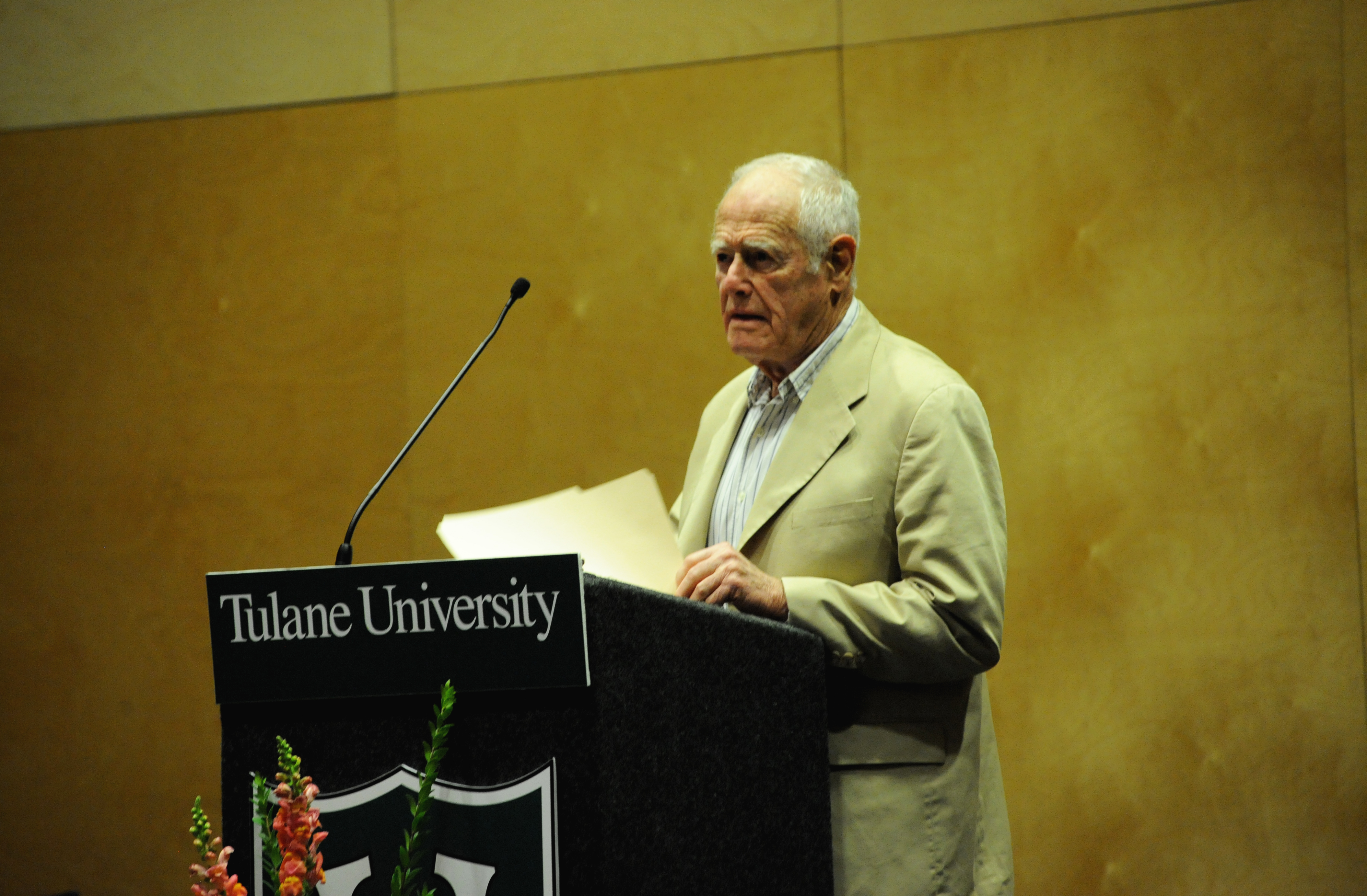 James Salter, American Short Story Writer and Novelist reads at Kendall Cram, Tulane University, New Orleans, November 10, 2010. Sponsored by the English Department as well as the Creative Writing Fund.